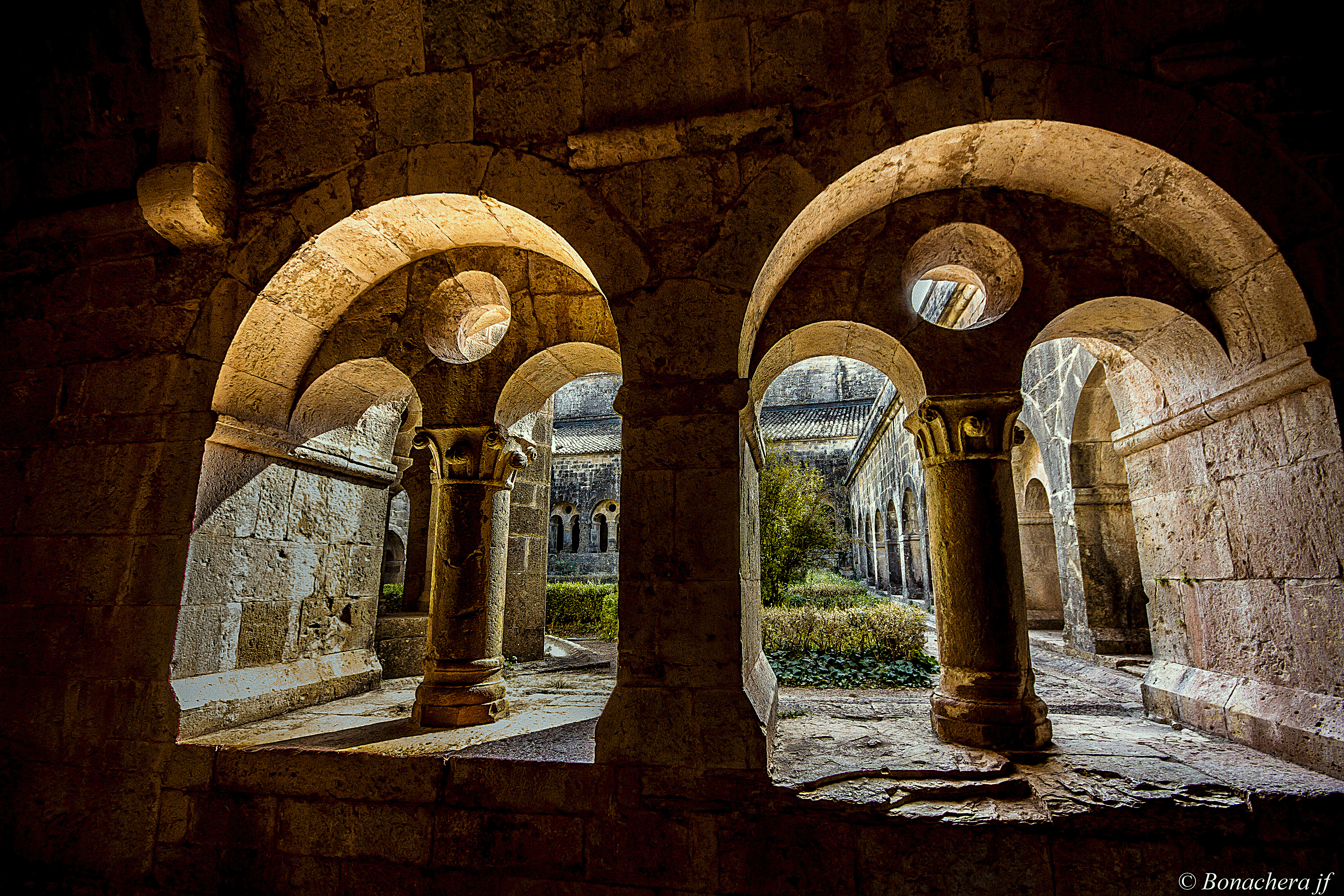 Le cloitre à travers les arcades géminées munies d'occulus.